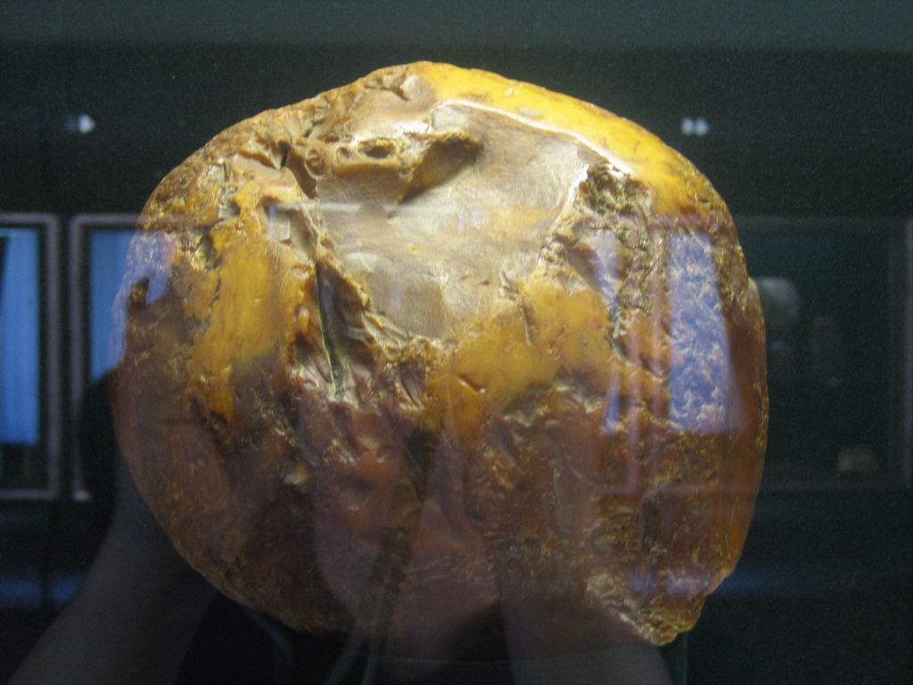 This is a huge piece of amber (210x190x150 mm; 3,526 kg - third in Europe), called the Amber Sun presented in the Amber museum in Palanga.